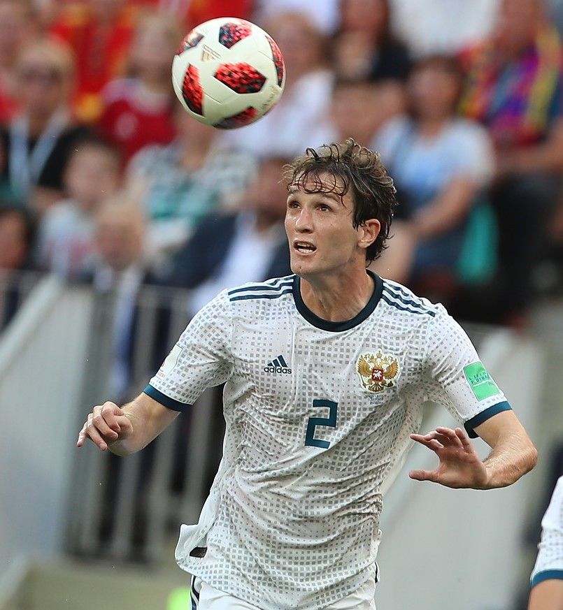 Mário Figueira Fernandes